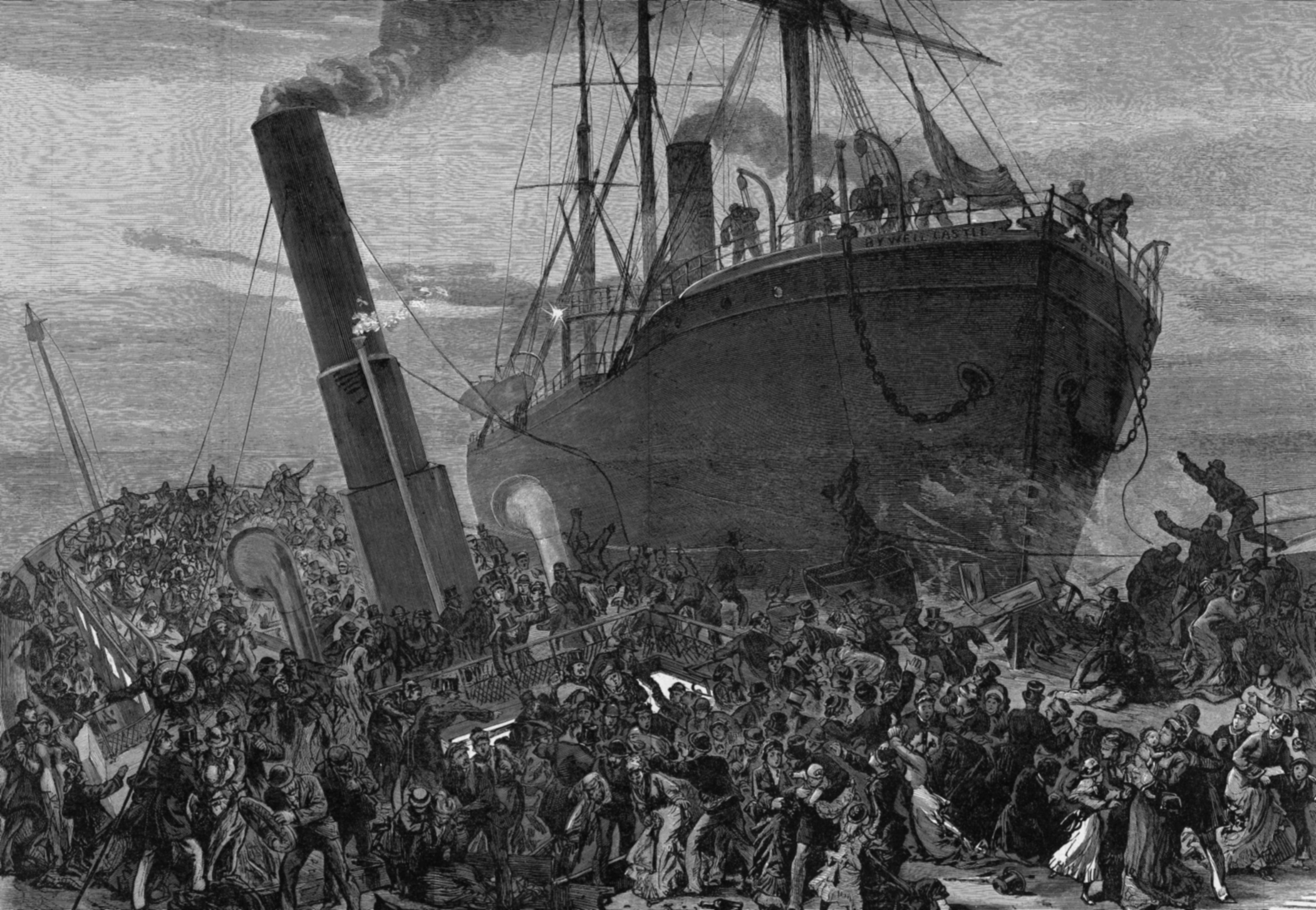 Drawing of a collision between the Princess Alice and Bywell Castle. Caption reads "The great disaster on the Thames—Collision between the Princess Alice and the Bywell Castle, near Woolwich.